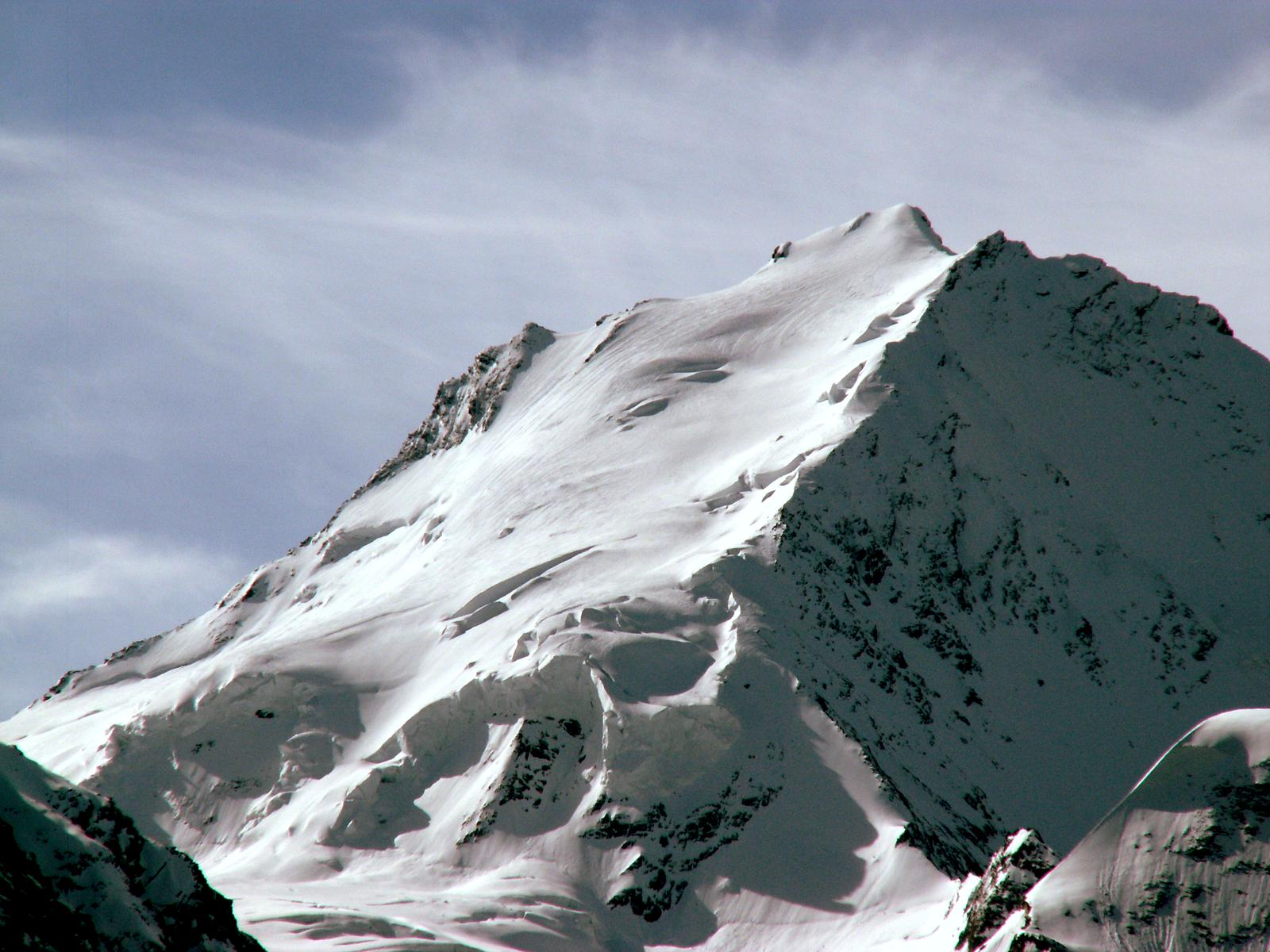 Dom, Mischabel range, Valais